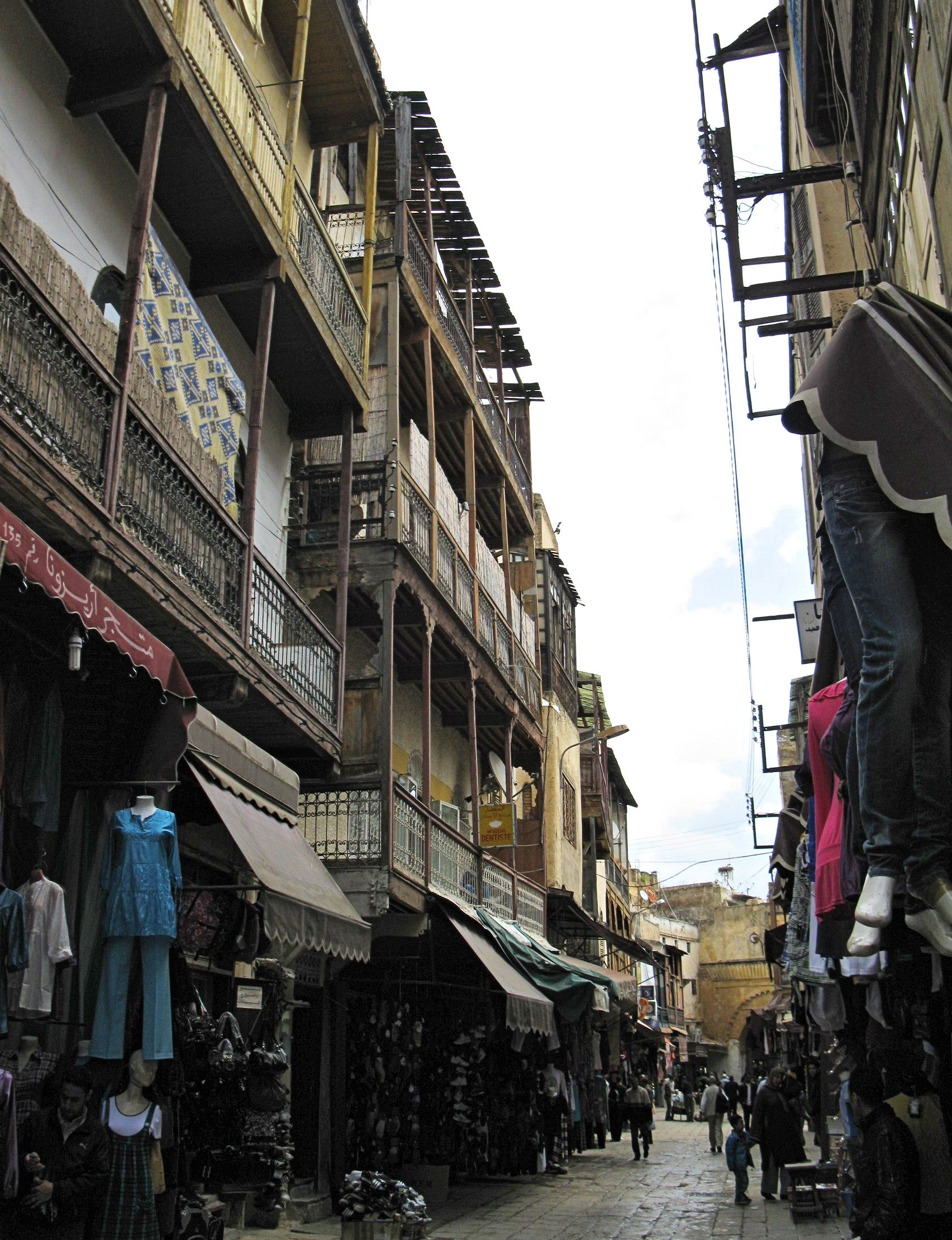 Main street of the Mellah of Fes, with the distinctive architecture of Jewish houses including open balconies facing the street